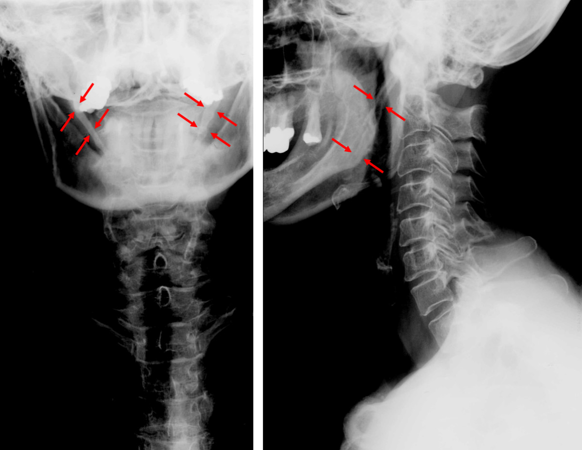 Radiographs of the vertebral spine: a-p and lateral view. The finding of note is elongation and thickening of the styloid processes (red arrows). Normal styloid processes should be less than 2.5 cm in length and Eagle's syndrome may be suspected in the appropriate clinical setting with styloid processes that measure greater than 3 cm. In this case the styloid processes nearly approximate the hyoid bone.